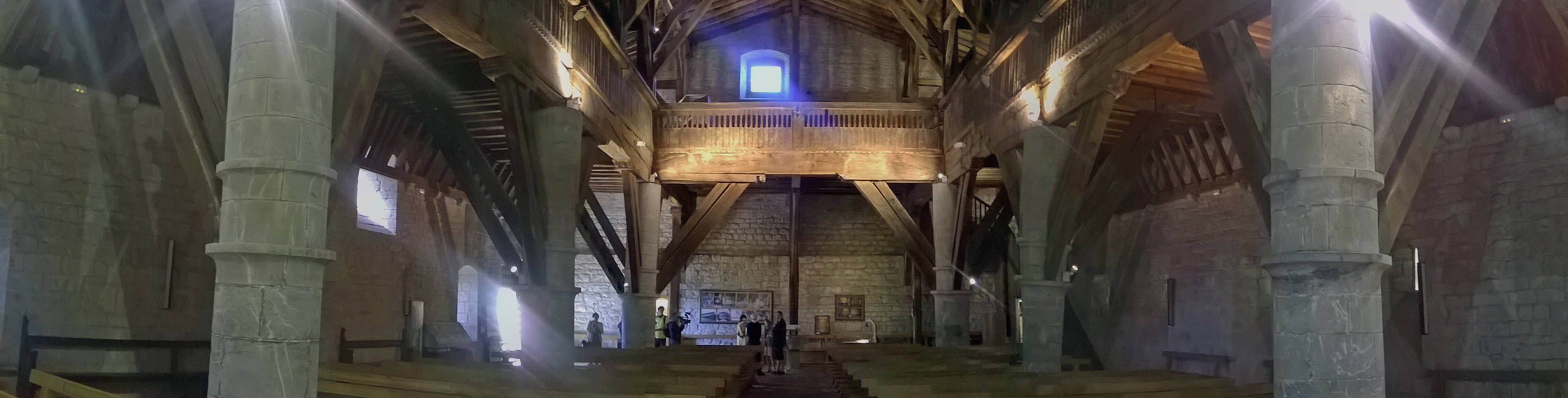 Antio hermitage, Zumarraga, Gipuzkoa, Basque Country.